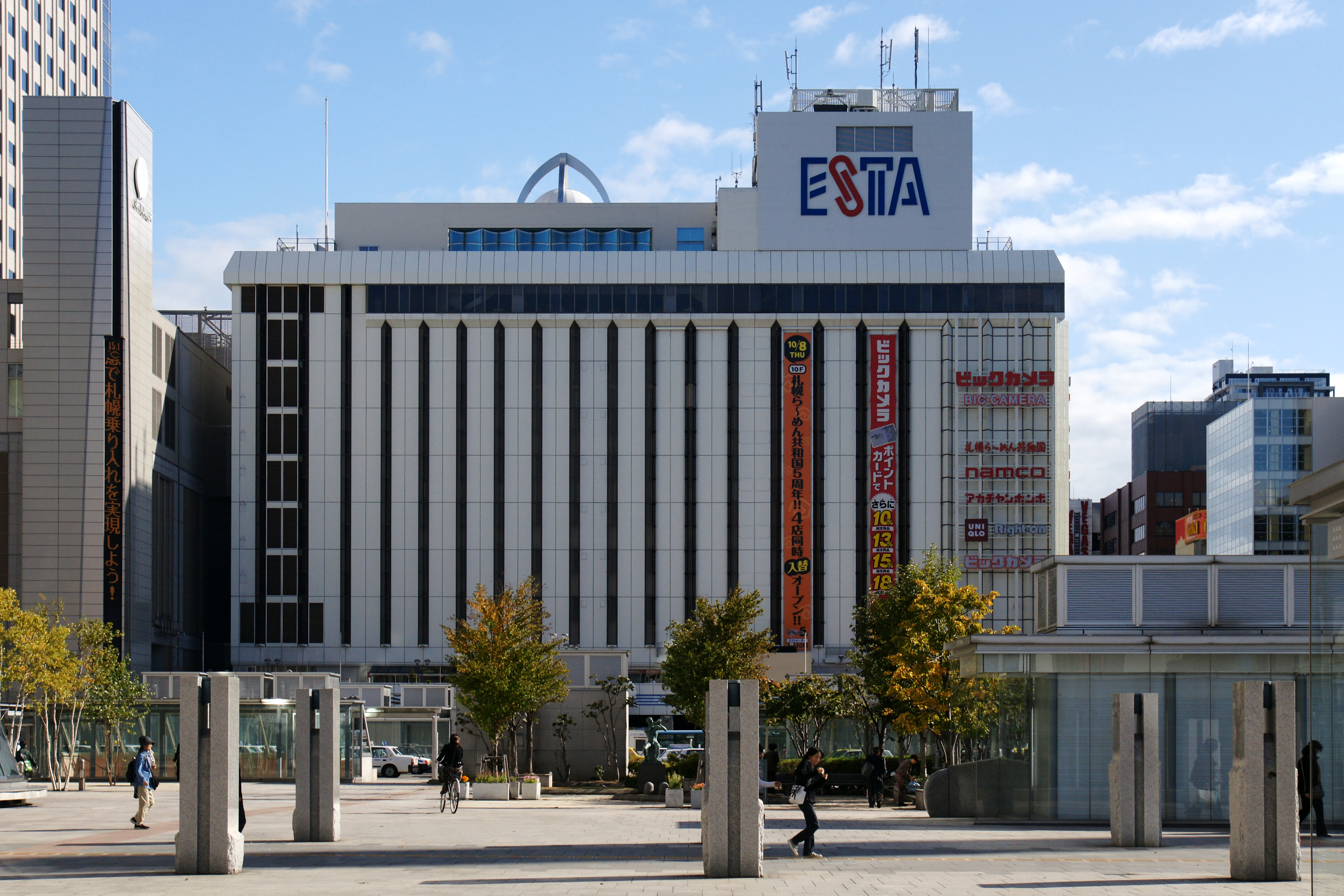 Sapporo ESTA in Sapporo, Hokkaido prefecture, Japan.